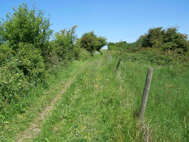 Byway, Prescombe Down The byway continues towards the Old Shaston Drove between hedge and fence.